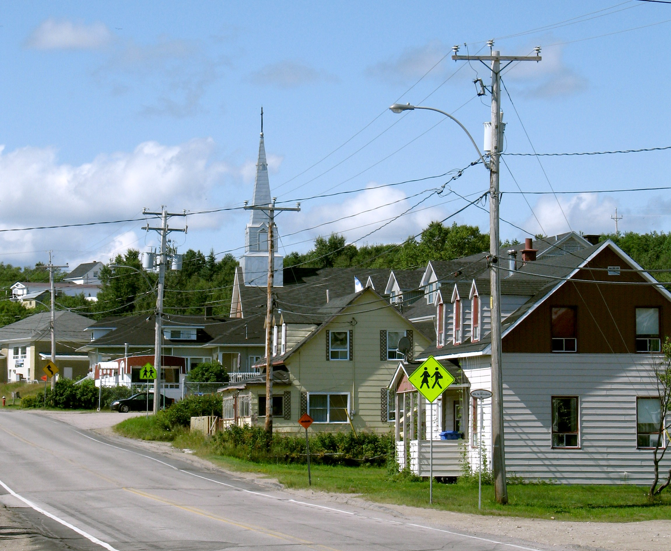 Longue-Rive, Quebec, Canada, sector Sault-au-Mouton